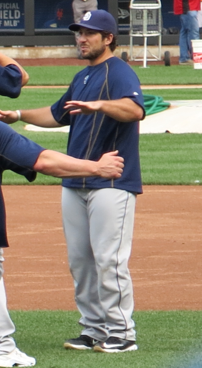 Brett Wallace stretching, August 12, 2016.